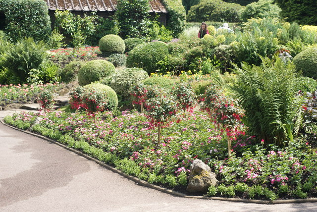 Coombe Wood Gardens, Croydon Early summer colour in the flower beds.